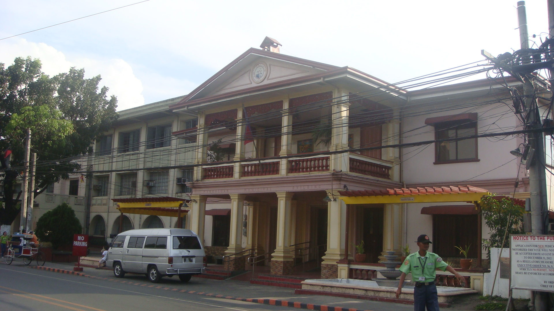 Town hall, Mangaldan, Pangasinan[1]